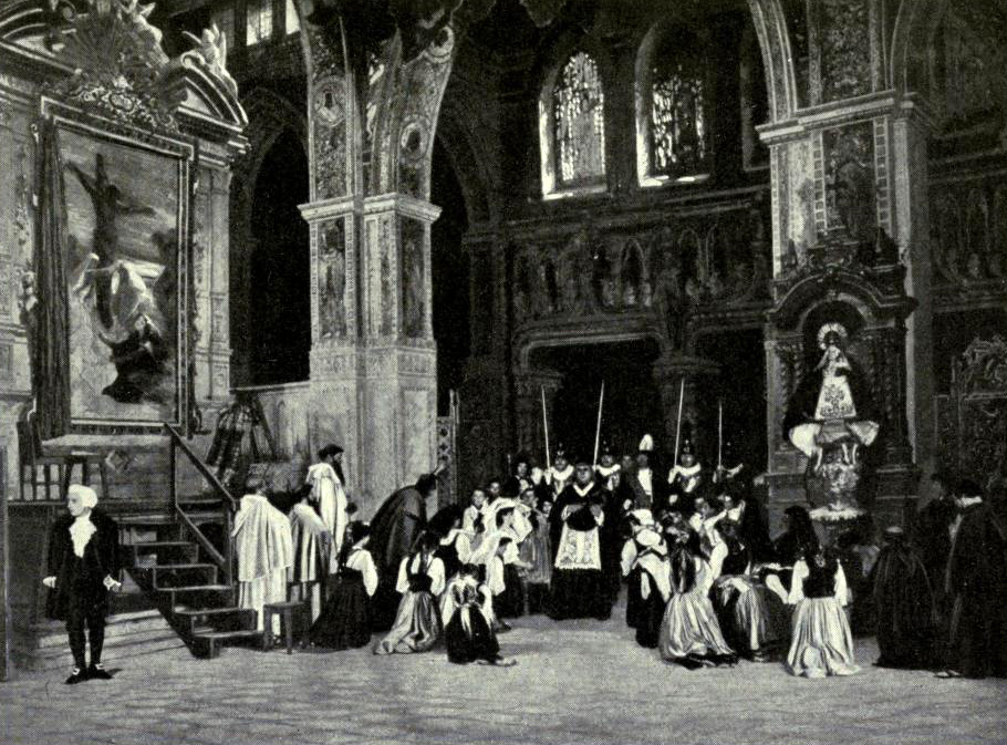 Stage photograph of the Te Deum scene in Act 1 of Puccini's 1900 opera Tosca